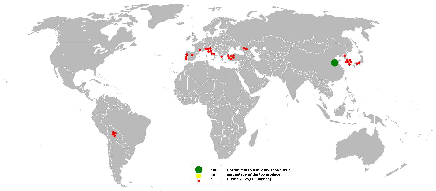 This bubble map shows the global distribution of chestnut output in 2005 as a percentage of the top producer (China - 825,000 tonnes). This map is consistent with incomplete set of data too as long as the top producer is known. It resolves the accessibility issues faced by colour-coded maps that may not be properly rendered in old computer screens. Data was extracted on 9th June 2007 from Based on :Image:BlankMap-World.png